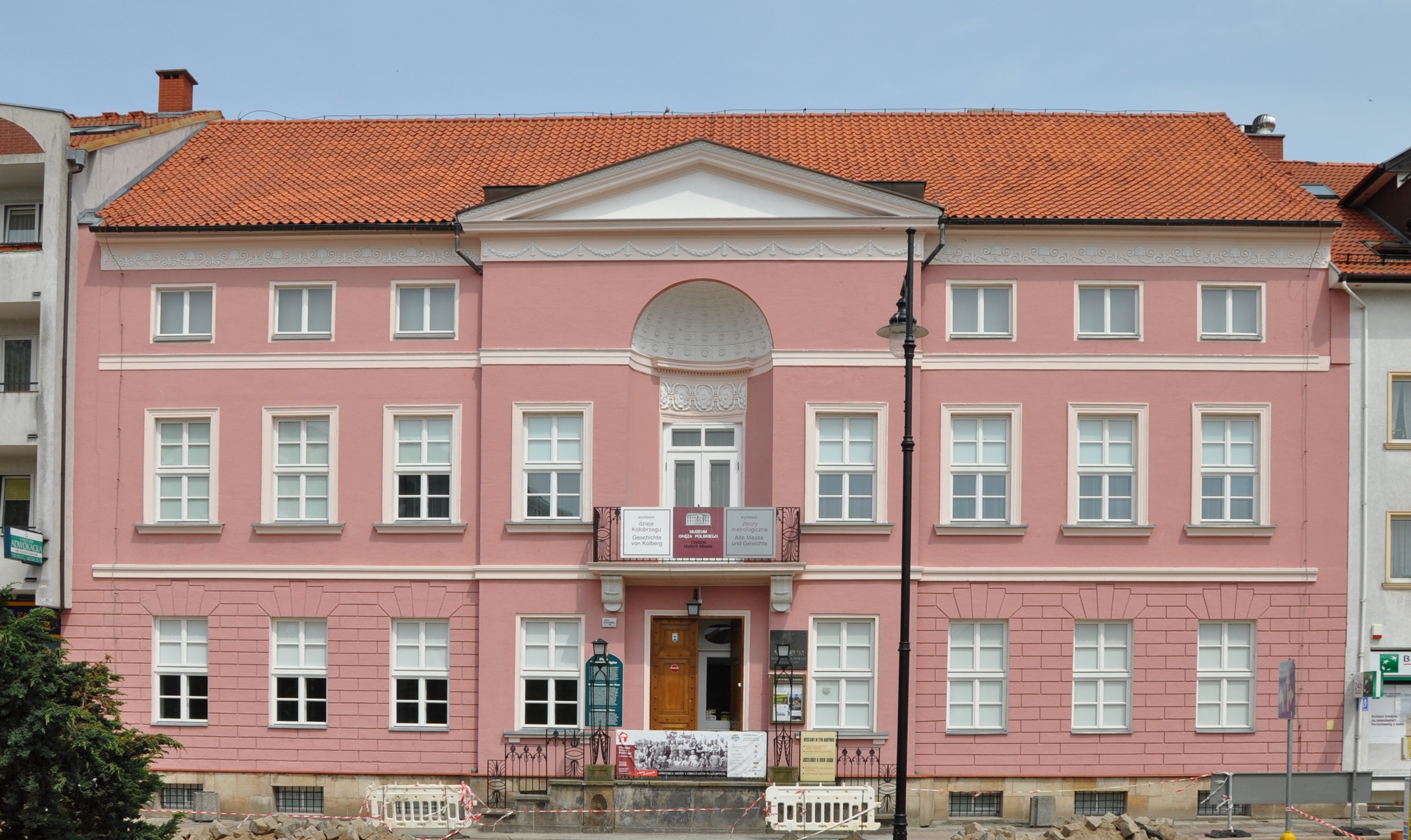 The palace of the von Braunschweig family in Kołobrzeg, Poland